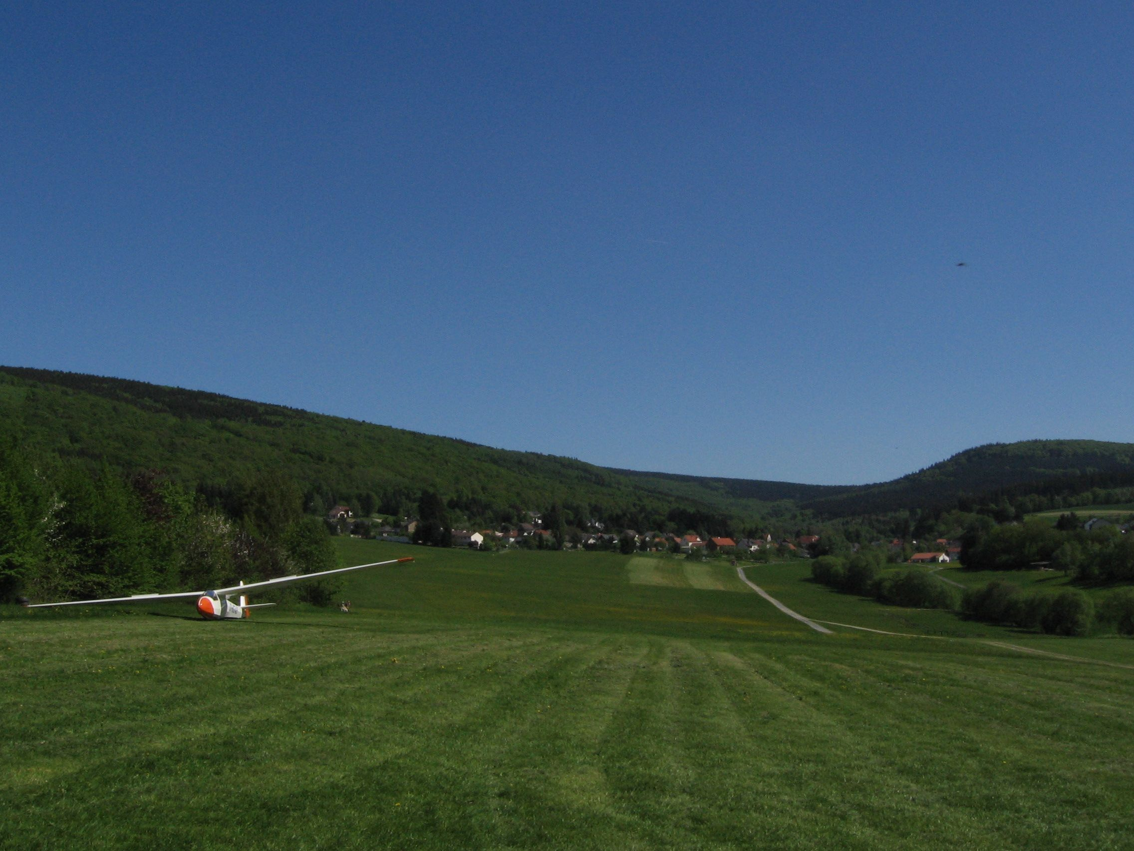 Oberems airfield, looking southeast